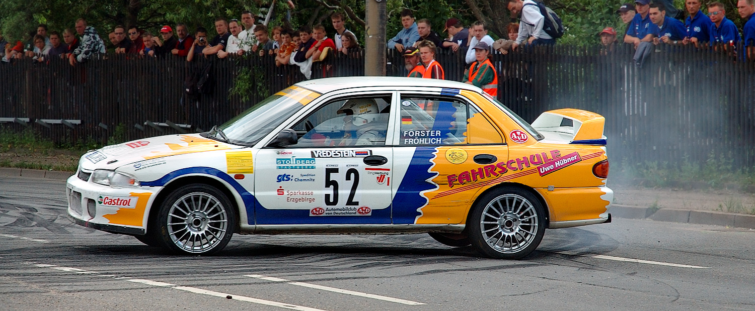 This image shows a Mitsubishi Lancer Evo 2. The driver is Maik Förster, the co-driver is Simon-Peter Fröhlich. This photo has been taken during the Saxony rally racing 2005 in Zwickau (Germany).